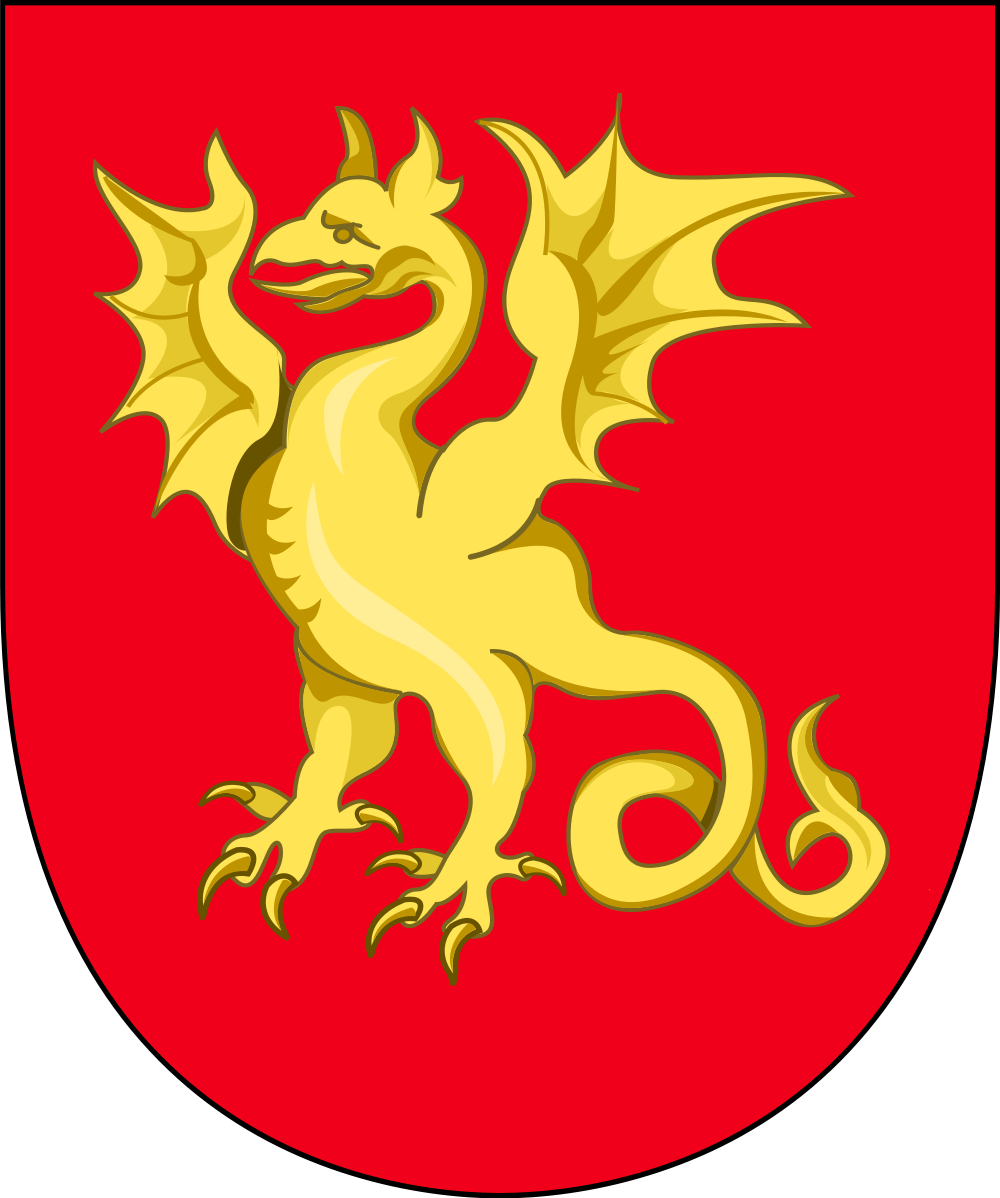 Historical coat of arms of Bornholm